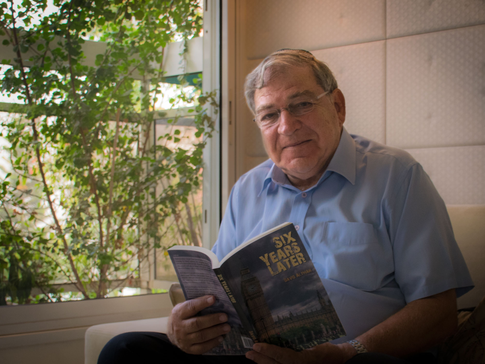 Dr David Altman